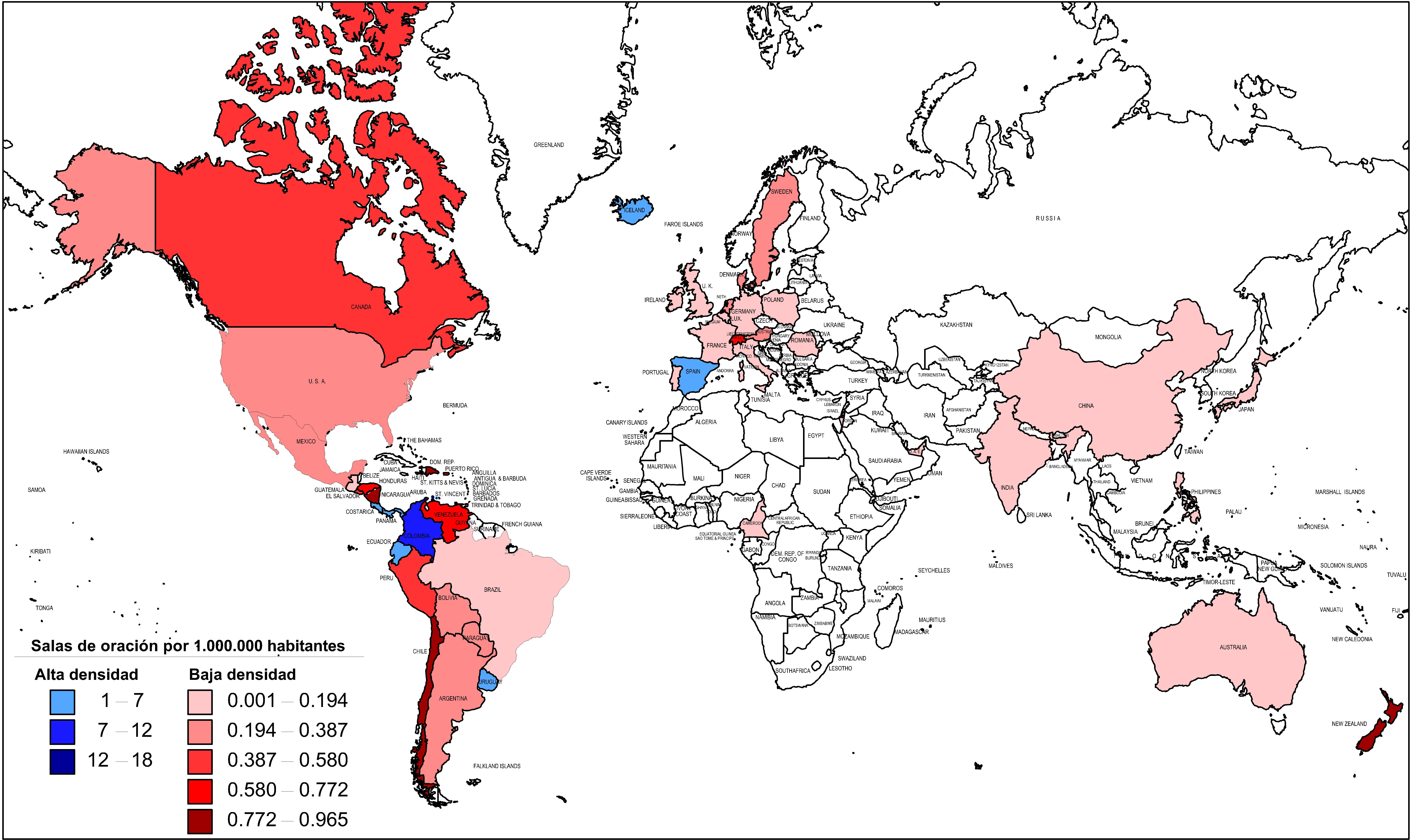 This World map shows the global distribution of prayer sites of the Church of God Ministry of Jesus Christ International (CGMJI). The map also contains the density of sites per million inhabitants.